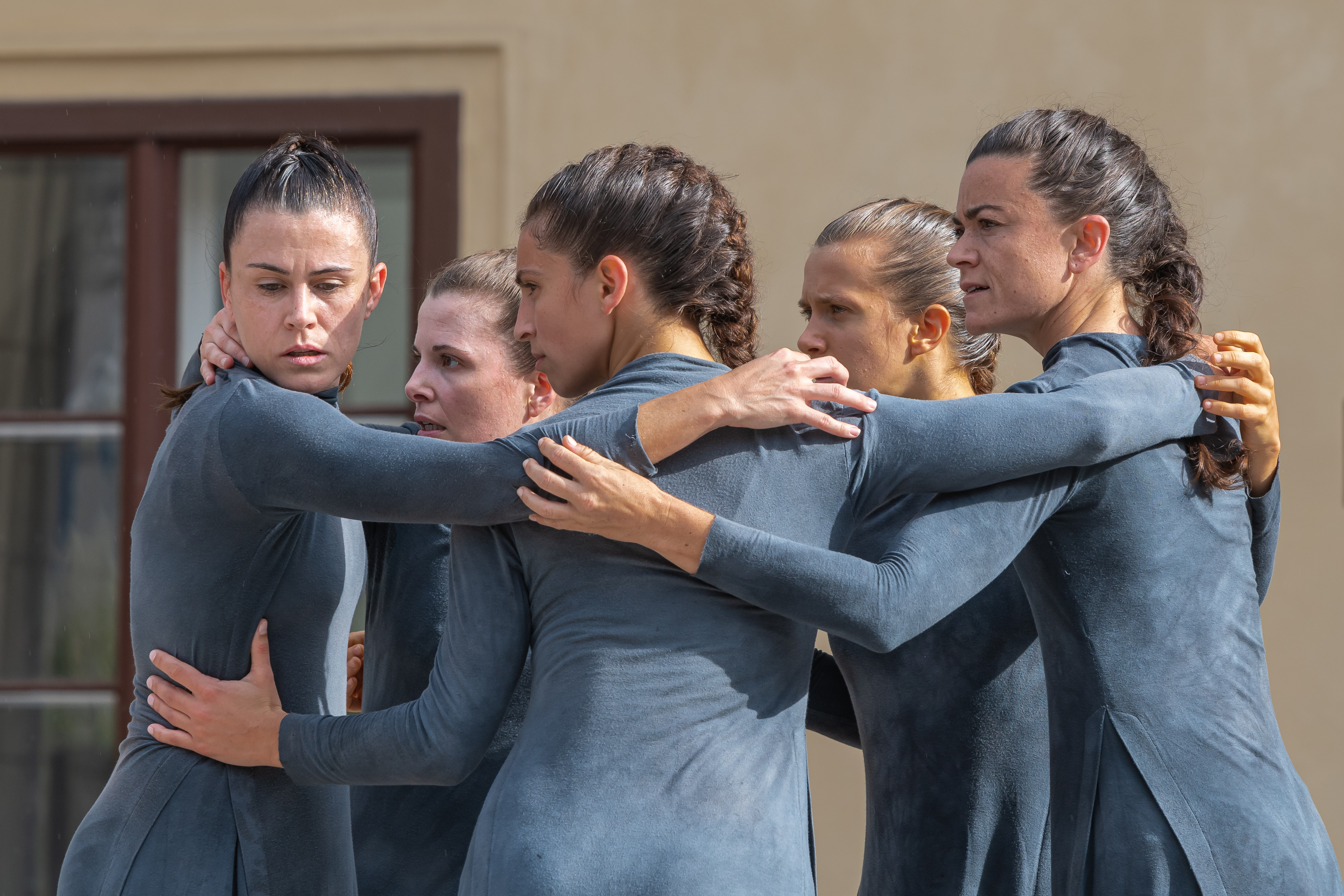 La Strada 2019 Graz, street theater on stilts, show "Mulïer" - tribute to all women by Compañía Maduixa, actresses Paula Quiles, Laia Sorribes, Ana Lola Cosín, Lara Llavata, Melissa Usina (left to right)